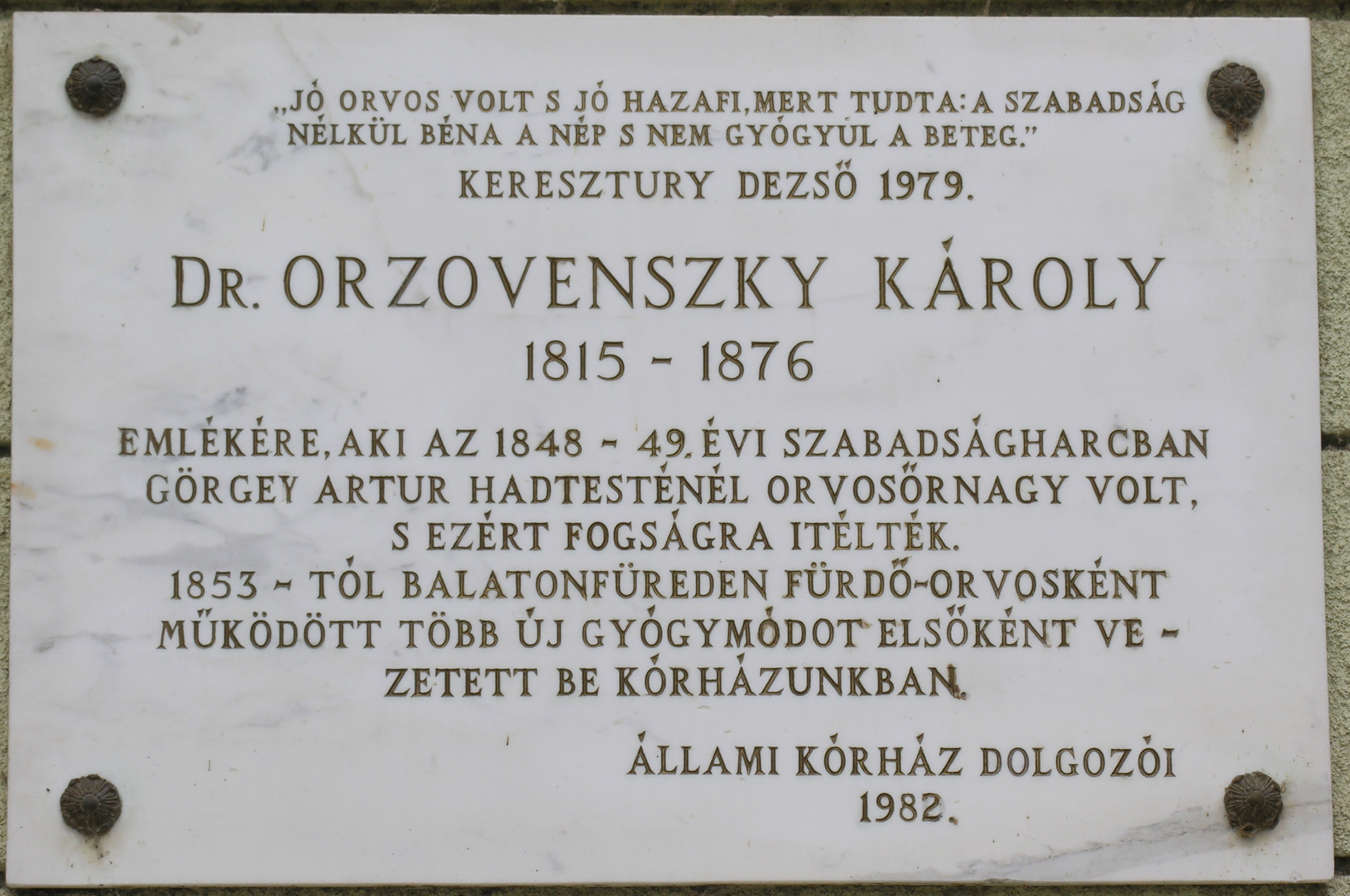 Commemorative plaque of Károly Orzovenszky in Balatonfüred, Gyógy Square No 2